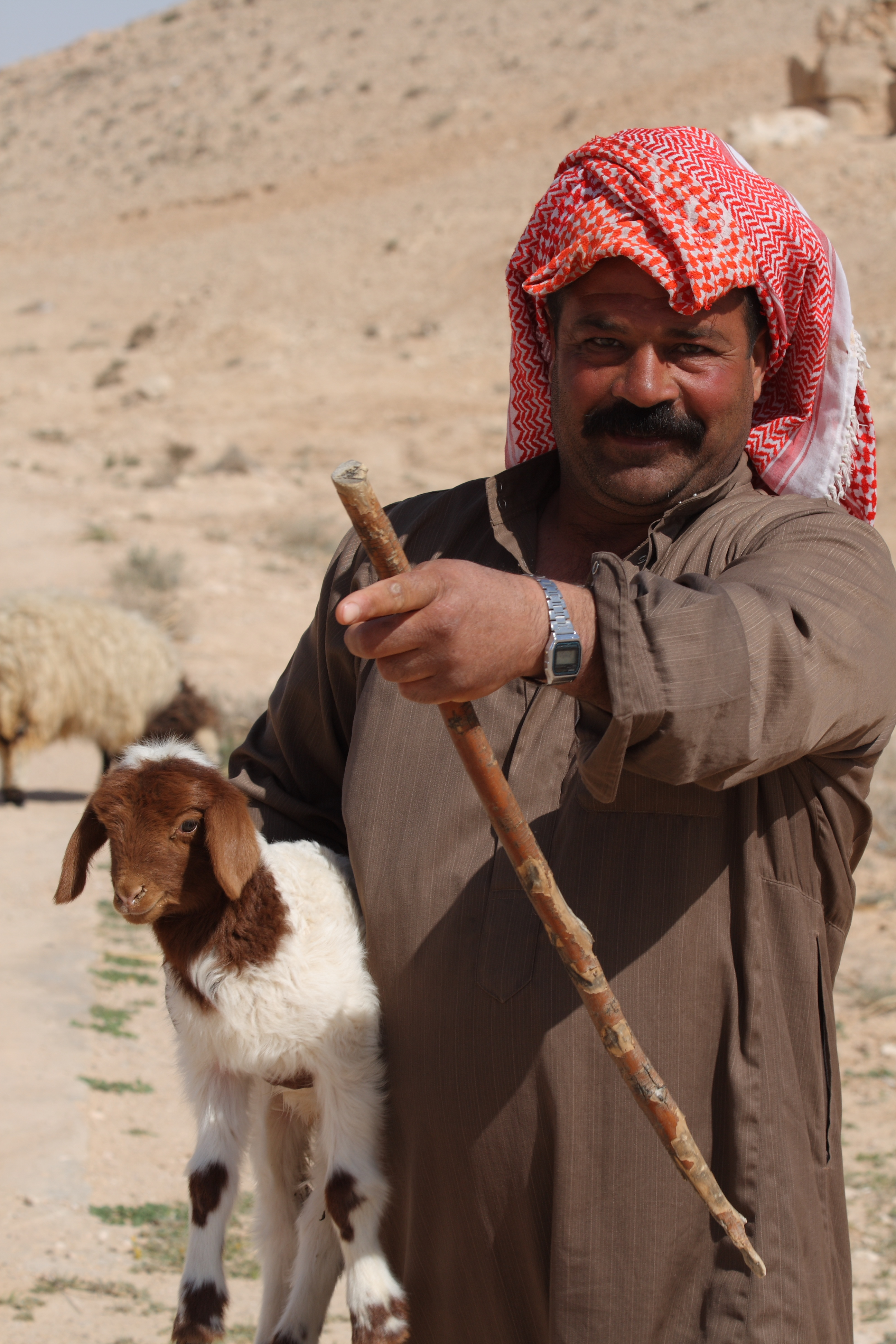 Having been hastled by touts at some of the more popular tourist destinations around Palmyra, I drove off in search of some quiet. After finding a nice picturesque spot to photograph, I herd a small bell tinkling in the distance. Then, from over the nearest ridge, came a flock of sheep, followed by this bedouin shepherd. He was driving his herd through the ruins to the Palmyra market!